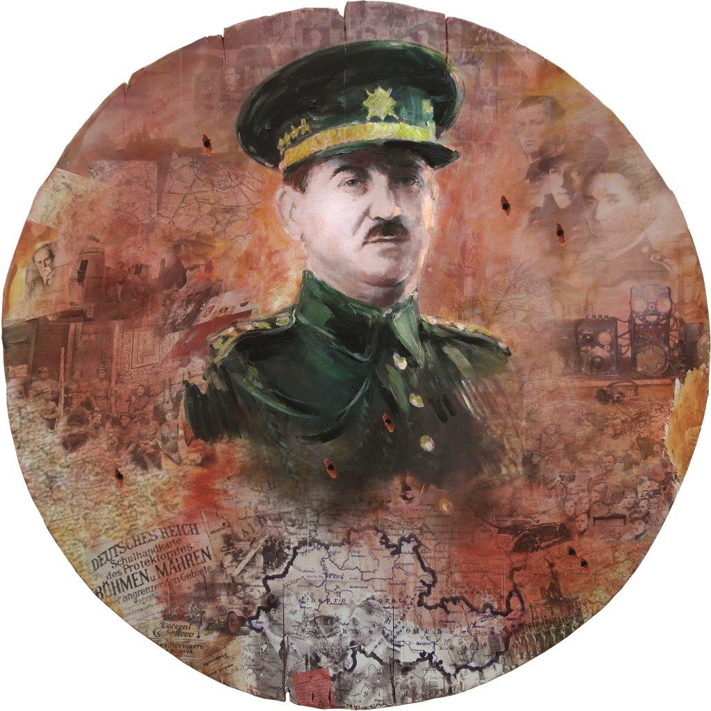 "General Josef Churavý" - a portrait from a picture cycle called "Czech Memory" (This cycle is dedicated to dramatic historical events and personalities who wrote the history of the independent state of Bohemia and the Slovaks from its origin (1918) to the present (2018); form of wok of art: painting on wood - circular "shooting target" with a diameter of 85 cm; Author: academic painter Pavel Vavrys; year: 2017.